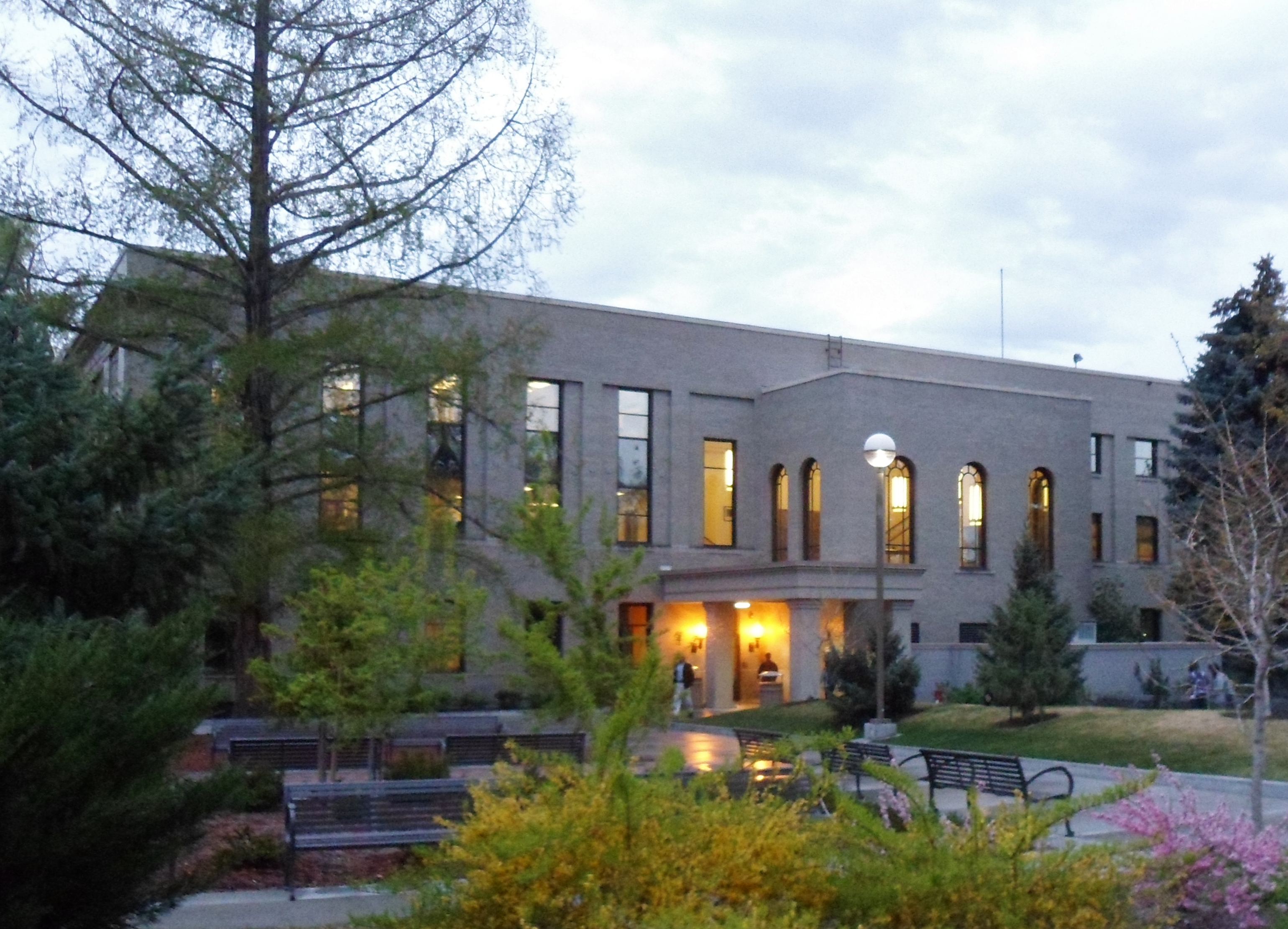 The BYU Testing Center (dedicated 1925), located in the Heber J. Grant Building, is used for the majority of midterm and final testing for students at the University. It has over 650 desks in the main upper room, and is the largest university testing center in the United States.